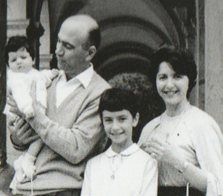 Fiorenzo Magni with wife Liliana Calò and daughters Tiziana and Beatrice